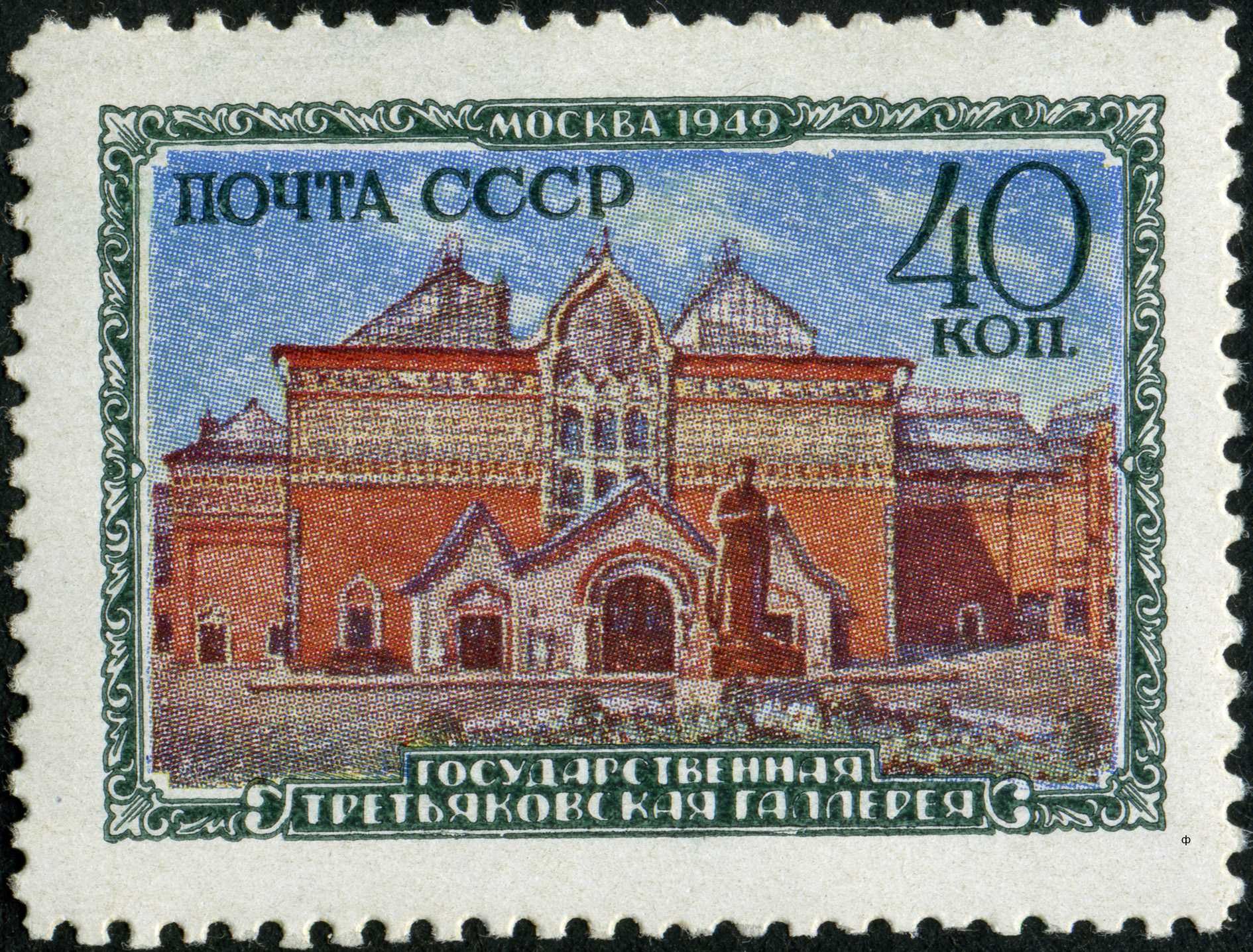 Stamp of the Soviet Union, 1950. Stalin Statue, State Tretyakov Gallery, Moscow. CPA #1504.